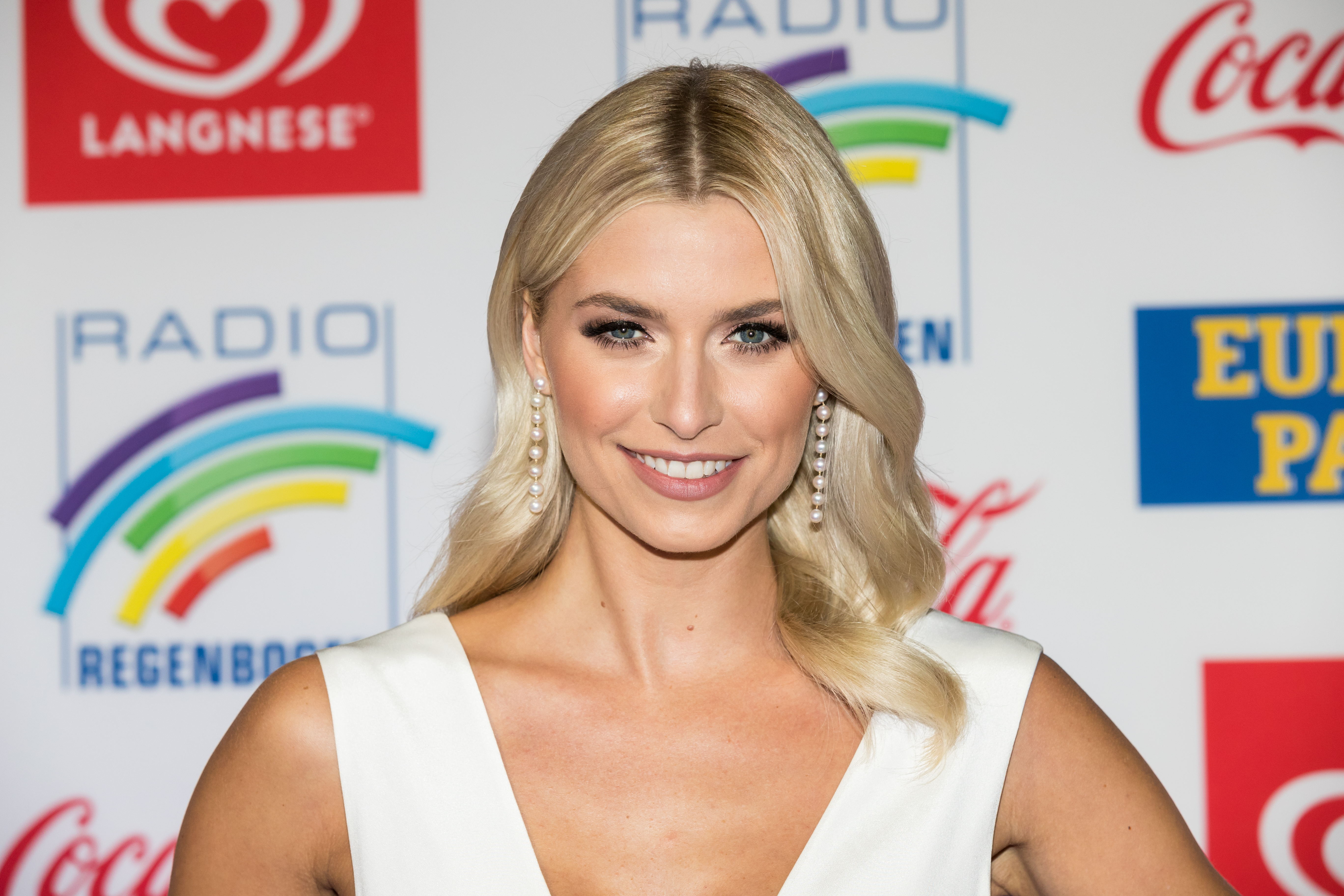 Lena Gercke during Radio Regenbogen Award 2018 at Europapark, Rust, Baden-Württemberg, Germany on 2018-03-23, Photo: Sven Mandel